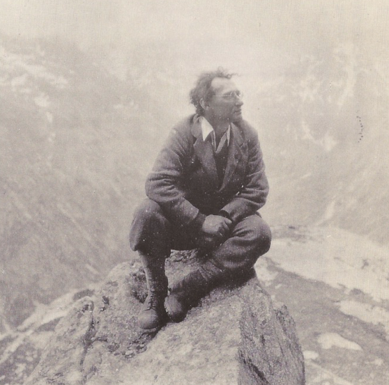 IAR in the alps c1930